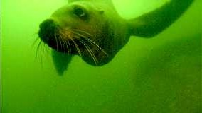 Steller sea lion checks out underwater camera in Glacier Bay